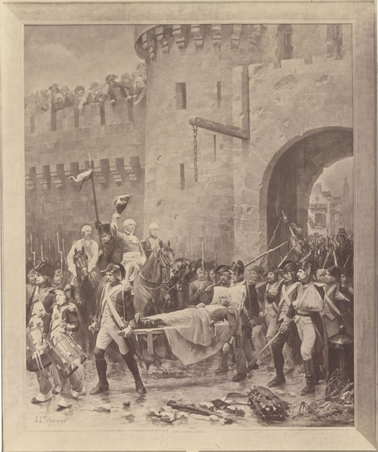 Colonel Beaurepaire's body leaving Verdun after the capitulation of the city.